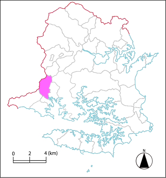 This is the map of Hamajimacho-Hiyamaji, Shima, Mie, Japan.